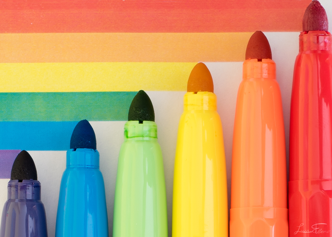 "Somewhere over the rainbow Way up high, There's a land that I heard of Once in a lullaby. Somewhere over the rainbow Skies are blue, And the dreams that you dare to dream Really do come true. Someday I'll wish upon a star And wake up where the clouds are far Behind me. Where troubles melt like lemon drops Away above the chimney tops That's where you'll find me. Somewhere over the rainbow Bluebirds fly. Birds fly over the rainbow. Why then, oh why can't I? If happy little bluebirds fly Beyond the rainbow Why, oh why can't I?" This work is licensed under a Creative Commons Attribution-ShareAlike 4.0 International License. If you use my image, please drop me a message to make me happy! :-)